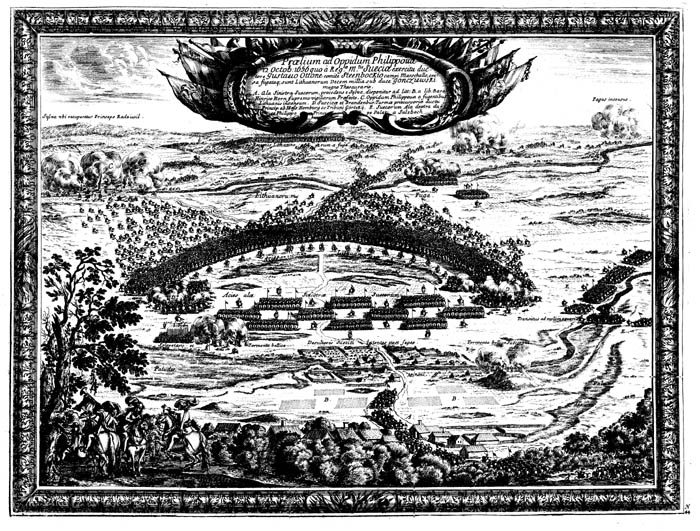 Erik Dahlbergh, Battle of Filipów 1656, Praelium ad Oppidium Philippova 12 octob. 1656... Format. 29,2 x 38,2 cm. From Samuel's Pufendorf's - "De rebus a Carolo Gustavo ... gestis Commentatoriurn libri septem"